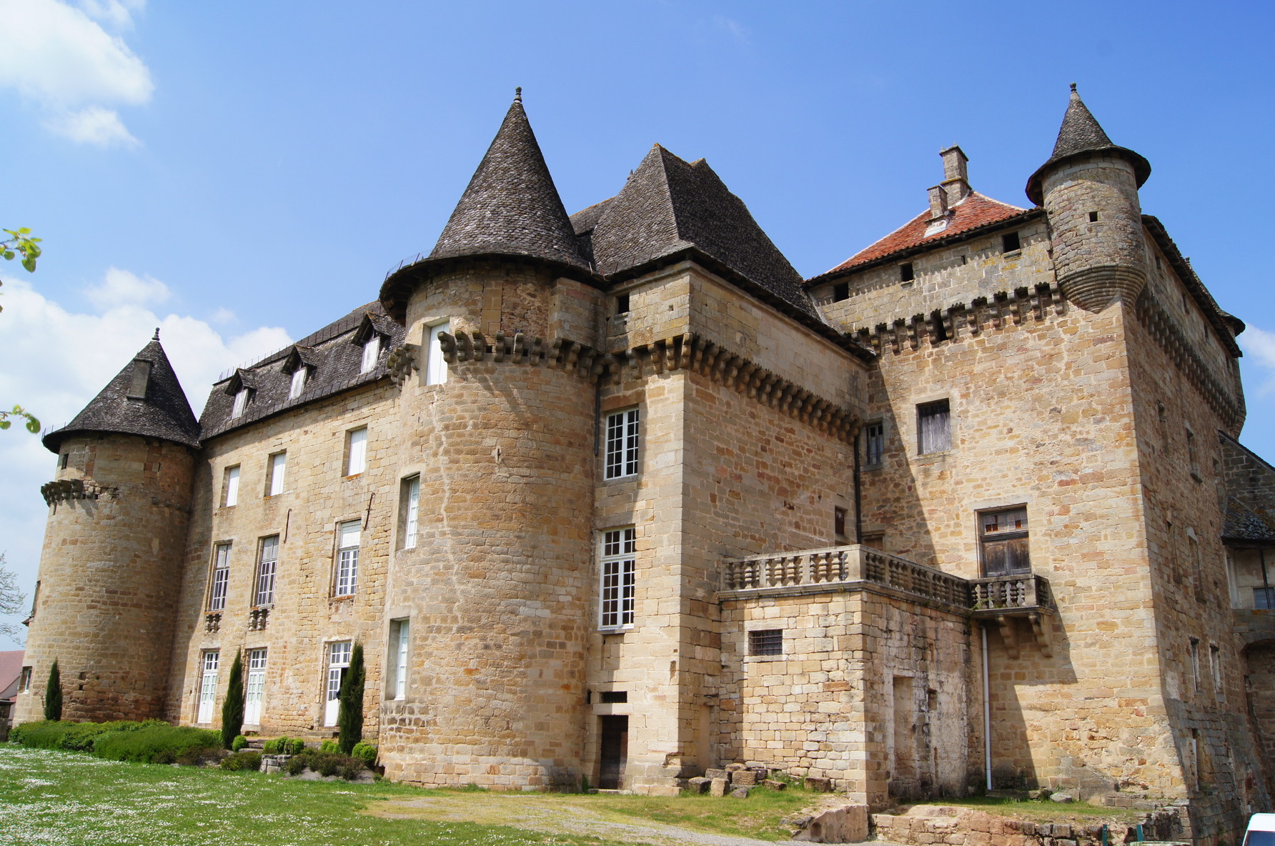 Castle of Lacapelle-Marival seen by the south.